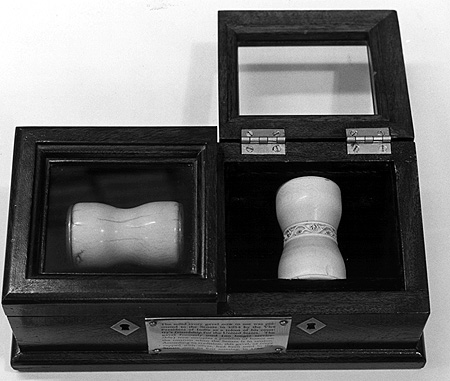 The gavel of the United States Senate, used by the presiding officier (Vice President or President Pro Tempore, usually), in their current mahogany box. This gavel on the right is currently in use, and was a gift from India in 1954. It replaced the gavel on the left, which had been in use since at least 1831 and possibly 1789, but which had come apart earlier in 1954. Both gavels are kept in the mahogany box, which is carried into the Senate chamber each day there is a session. For more information, see here and here.